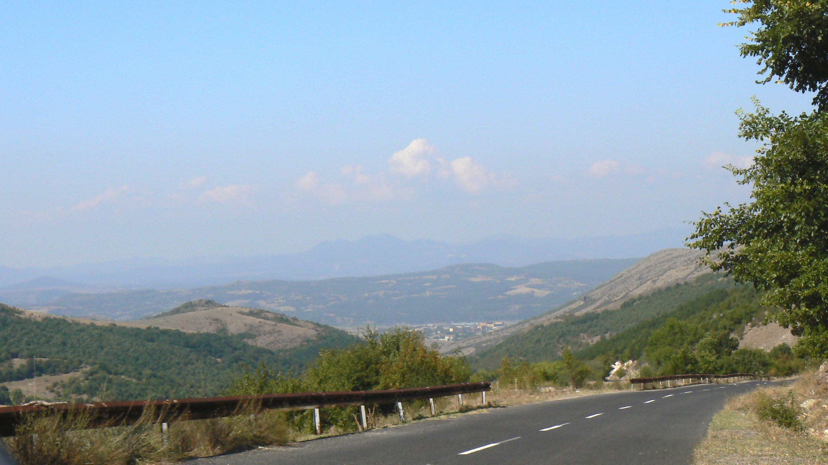 Momchilgrad, Bulgaria, as seen from the road to village Tatul